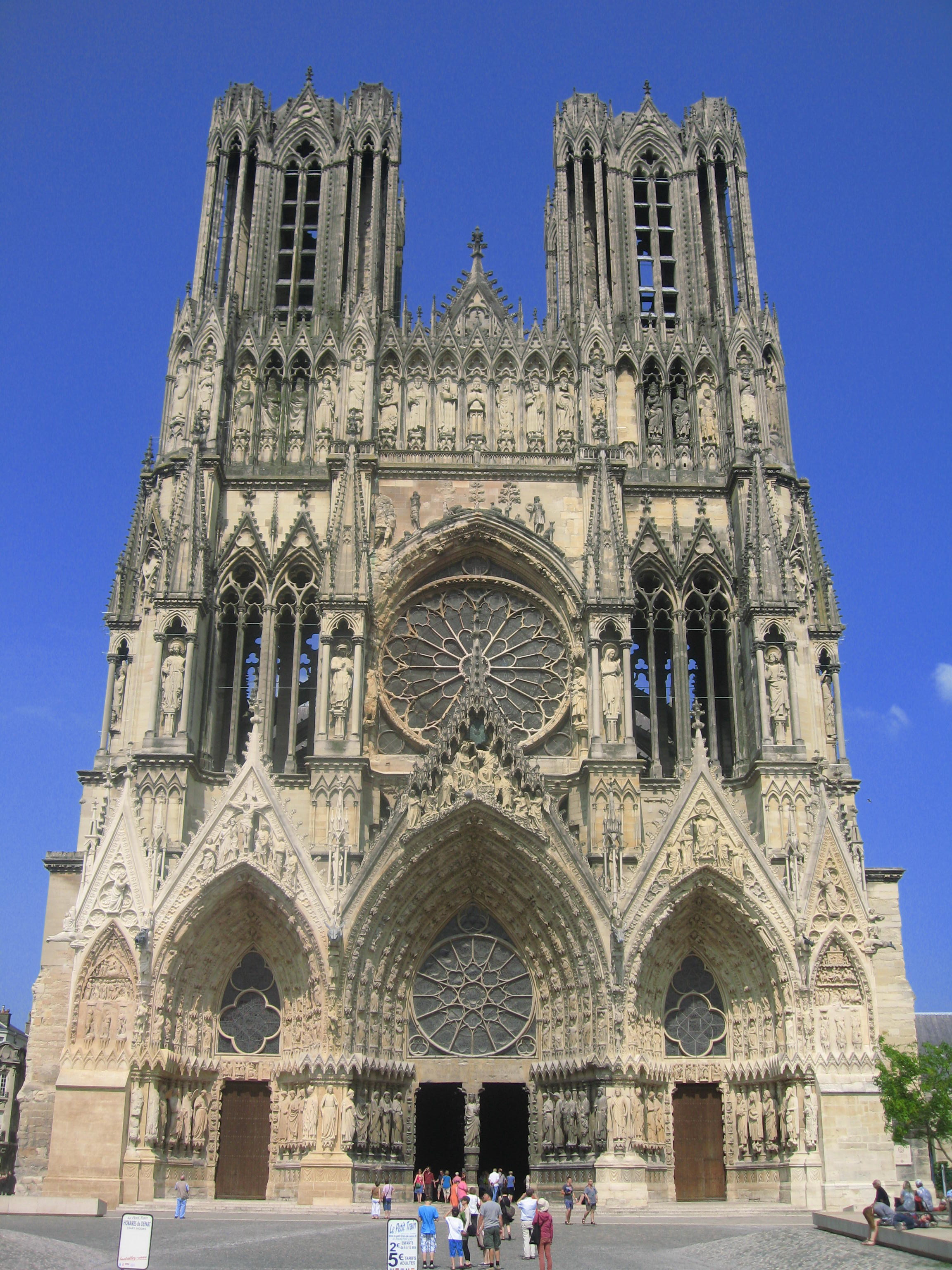 Reins Cathedral, France